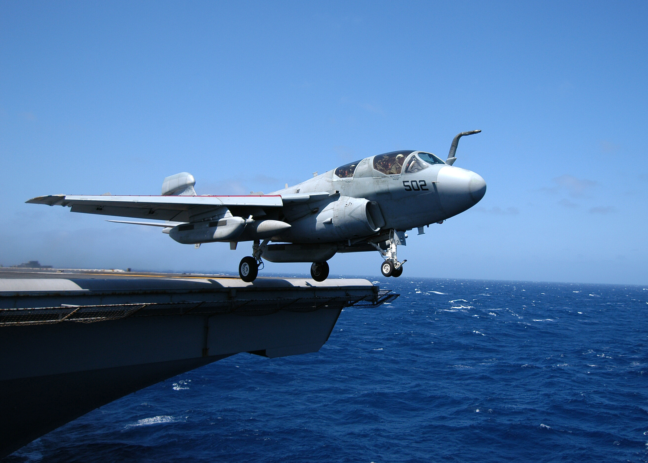 An EA-6B Prowler, assigned to the "Rooks" of Electronic Attack Squadron One Three Seven (VAQ-137), launches from the flight deck aboard USS Enterprise (CVN 65) as part of Summer Pulse 2004, the simultaneous deployment of seven carrier strike groups (CSGs). Summer Pulse demonstrates the ability of the Navy to provide credible combat across the globe, in five theaters with other U.S., allied, and coalition military forces. Summer Pulse is the Navy's first deployment under its new Fleet Response Plan (FRP).